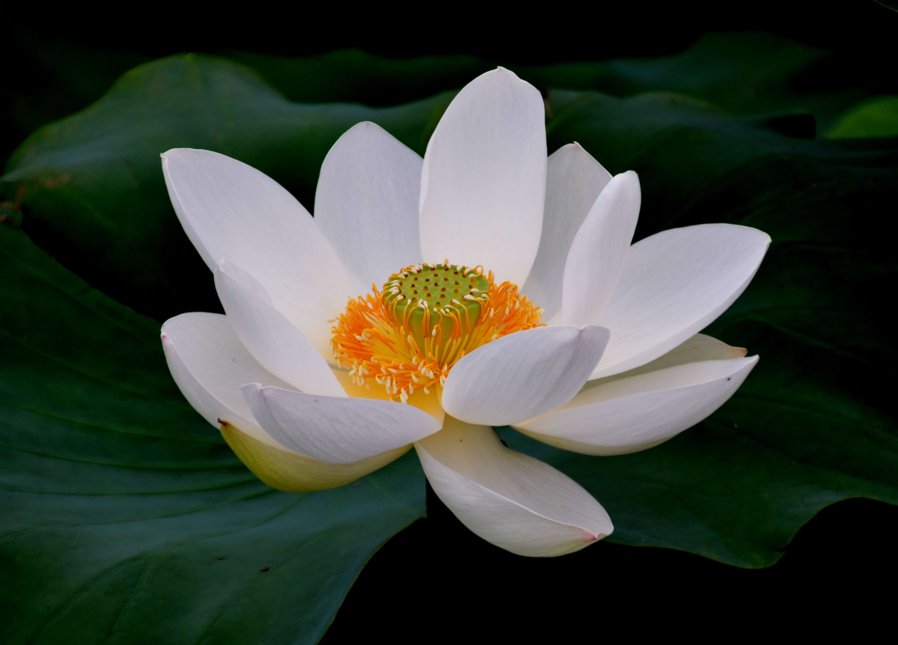 Lotus flower. Japan